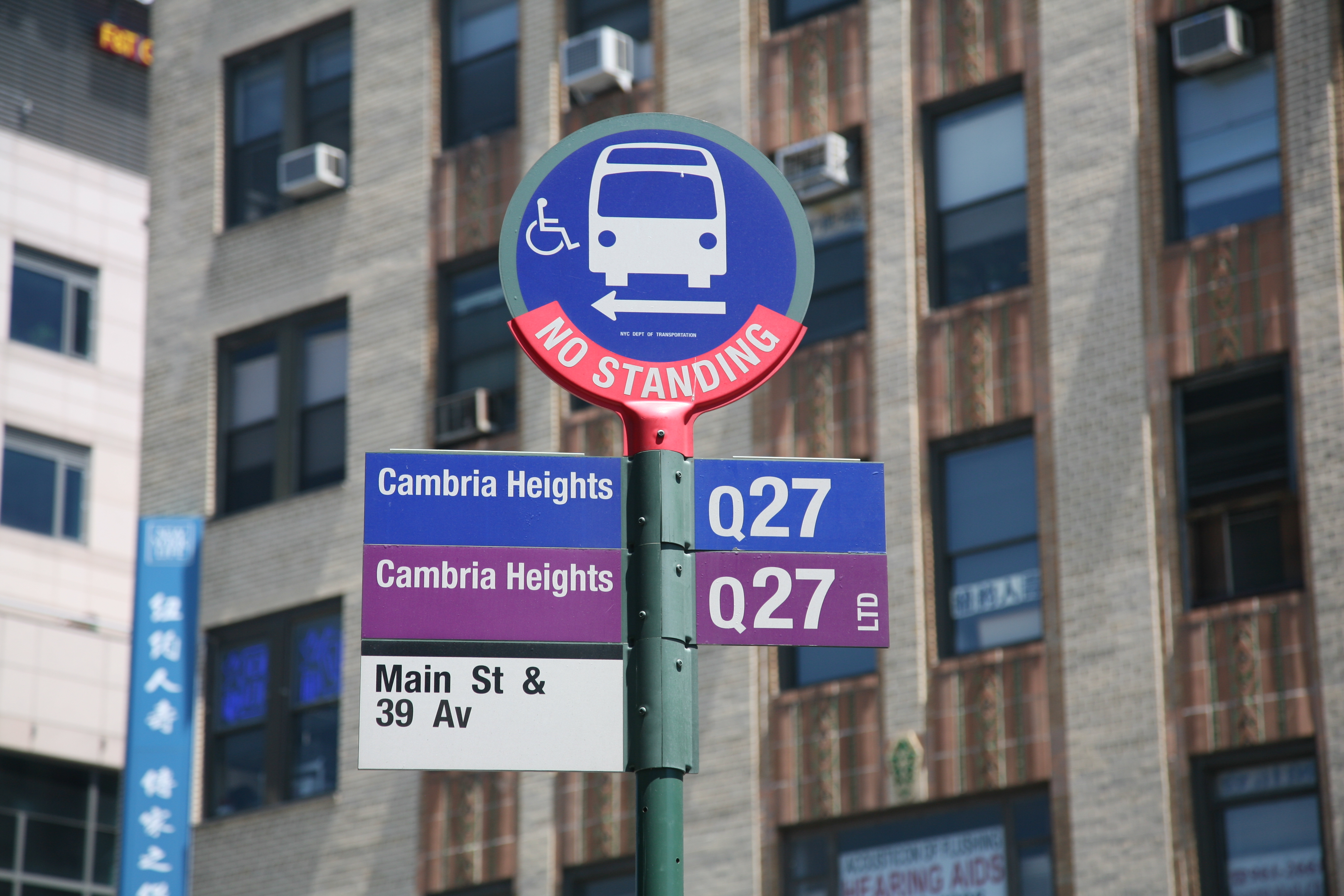 MTA bus Main Street and 39th Avenue, Flushing, New York City